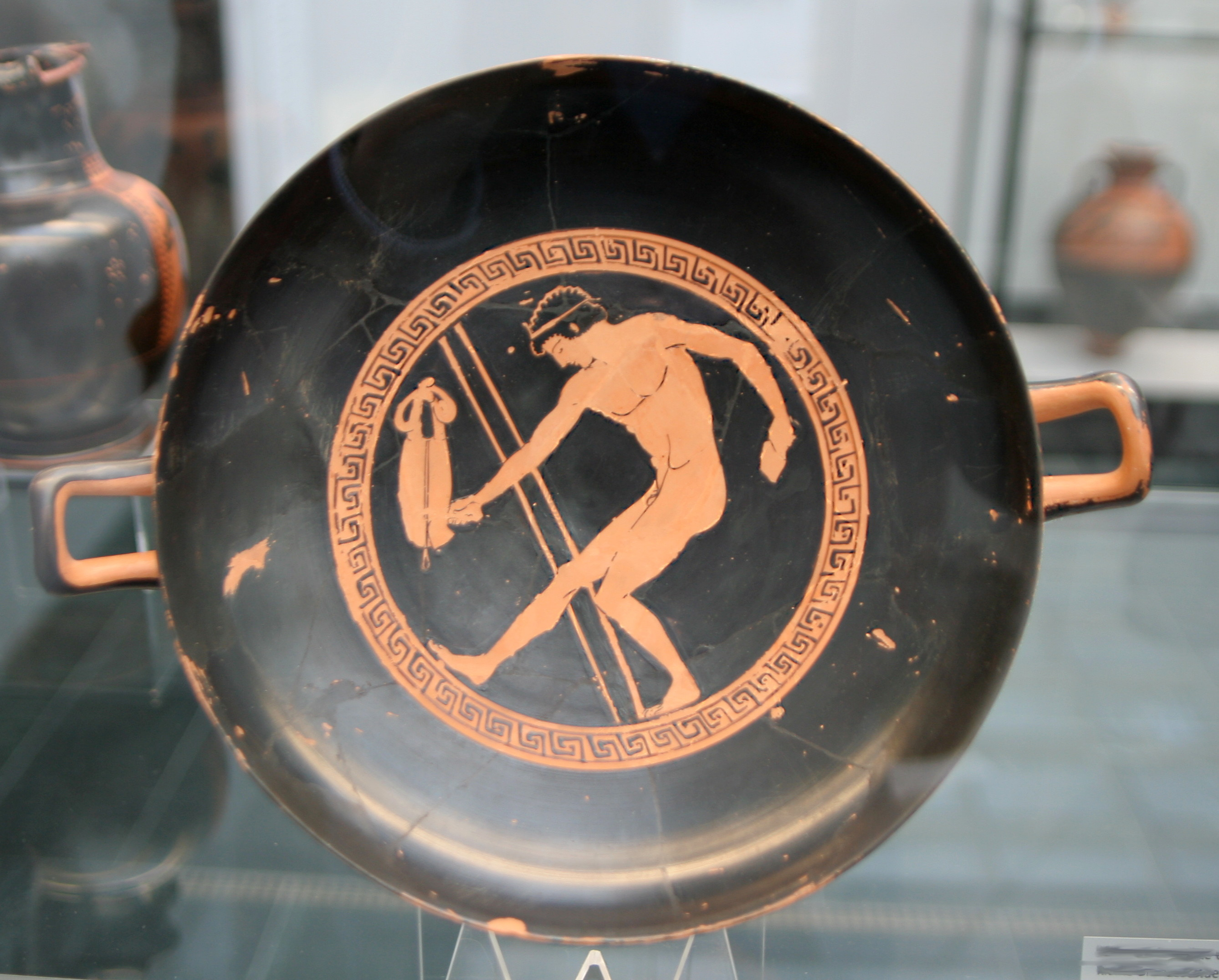 Young athlete with jumping weights. In the background, a bag containing a discus and two throwing spears. Interior of an Attic red-figure kylix, ca. 490 BC. From Vulci.